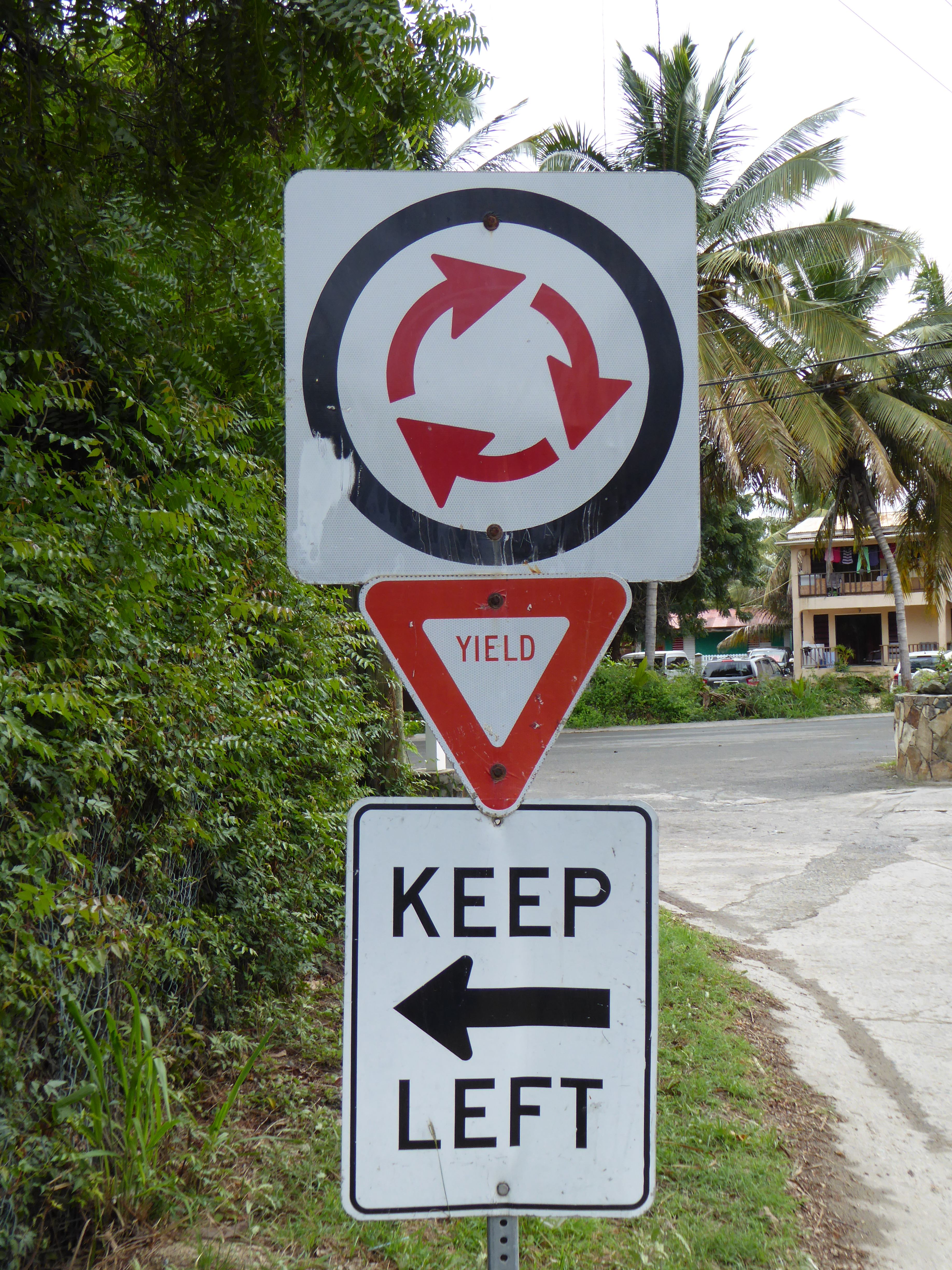 Road traffic signs (roundabout, yield, keep left)